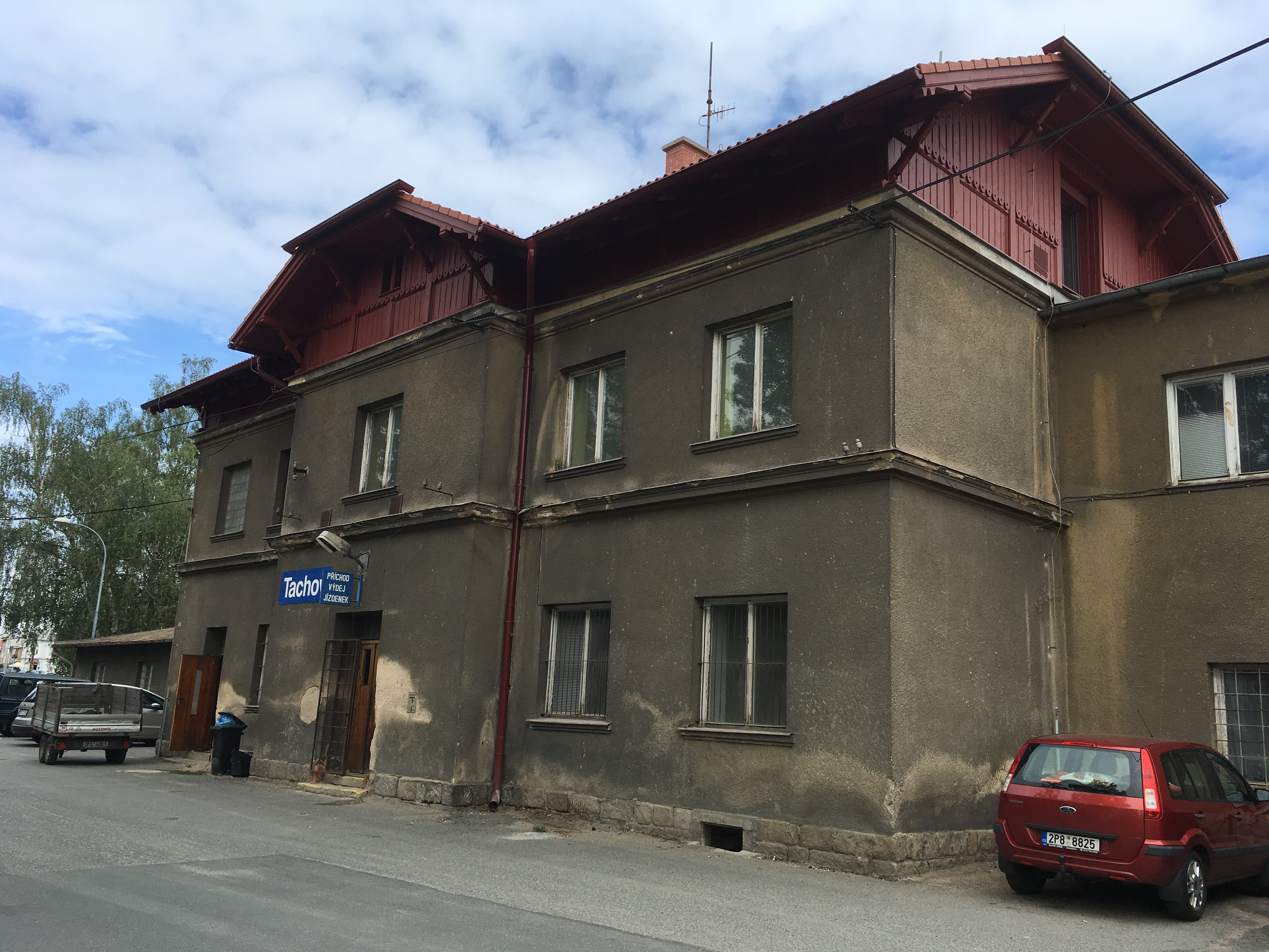 Tachov train station